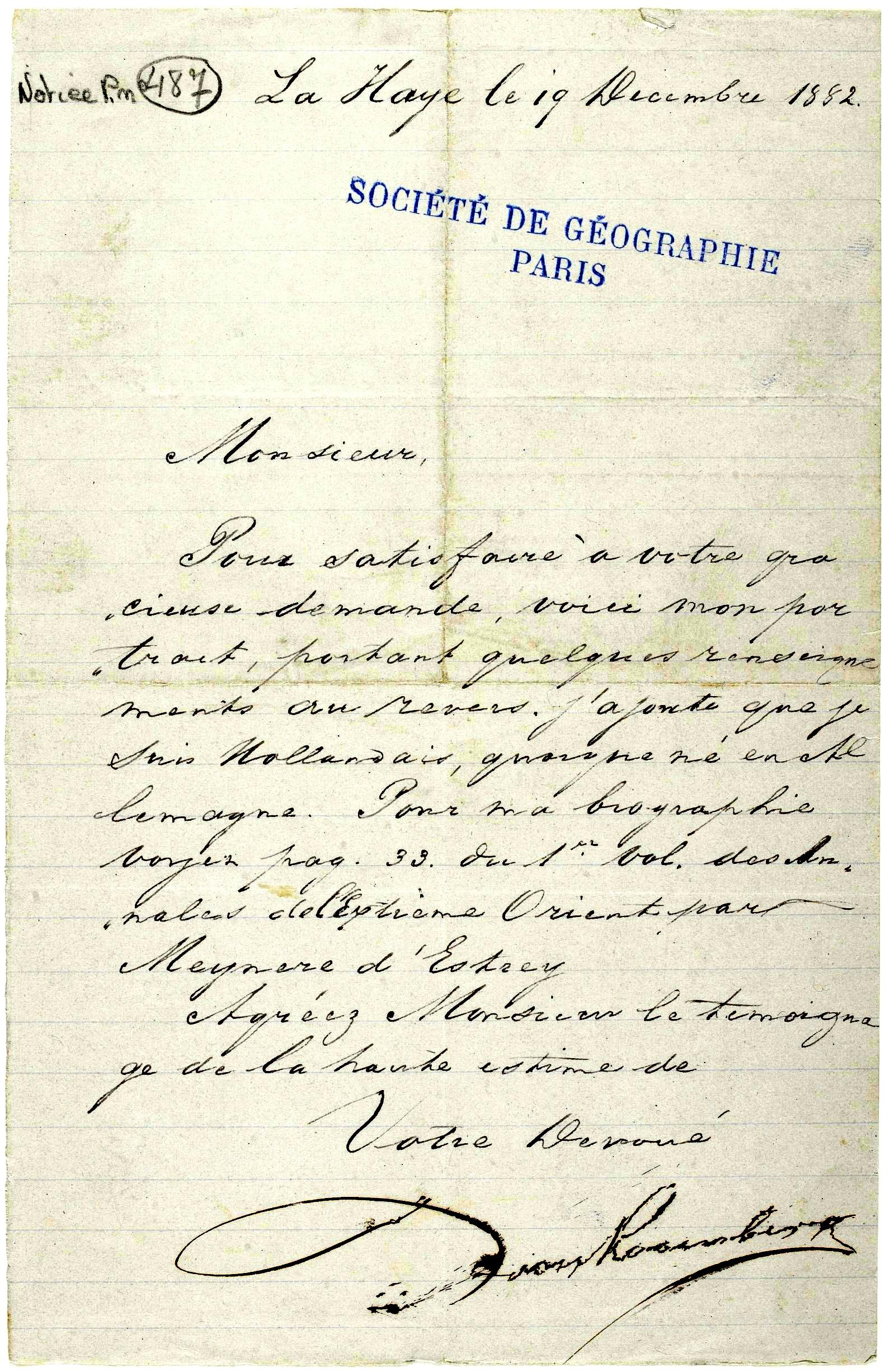 Letter by Hermann von Rosenberg to the French Geographical Society, where he explains that he is "...Dutch, even born in Germany."